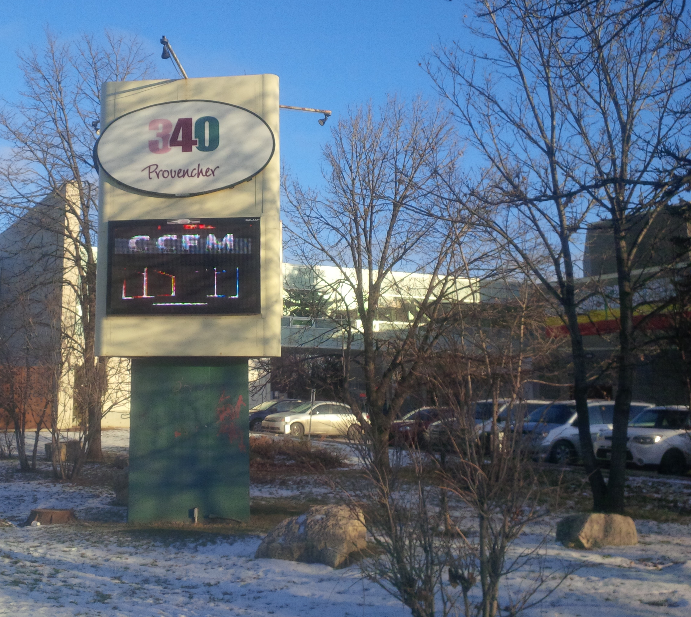 Franco Manitoban Cultural Centre. 340 Provencher Boulevard